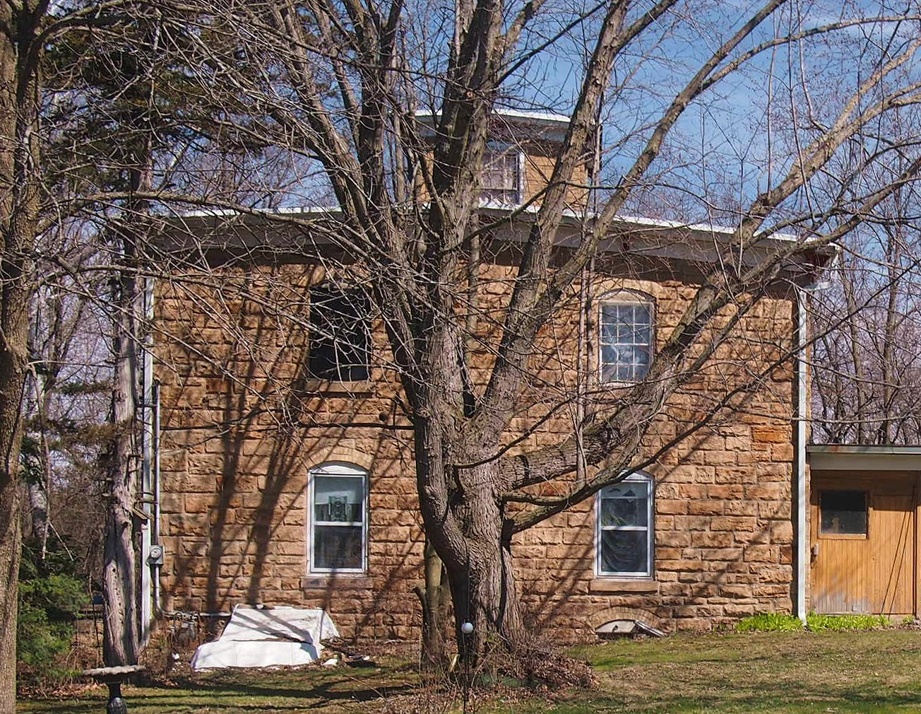 Foss and Wells House, 613 S Broadway St, Jordan, Minnesota, USA. Viewed from the west.